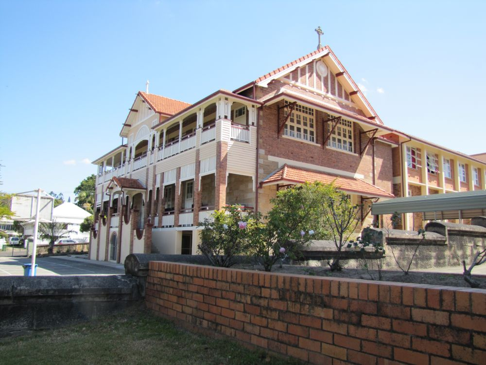 St Marys Roman Catholic Church Precinct, boys' school (2012)